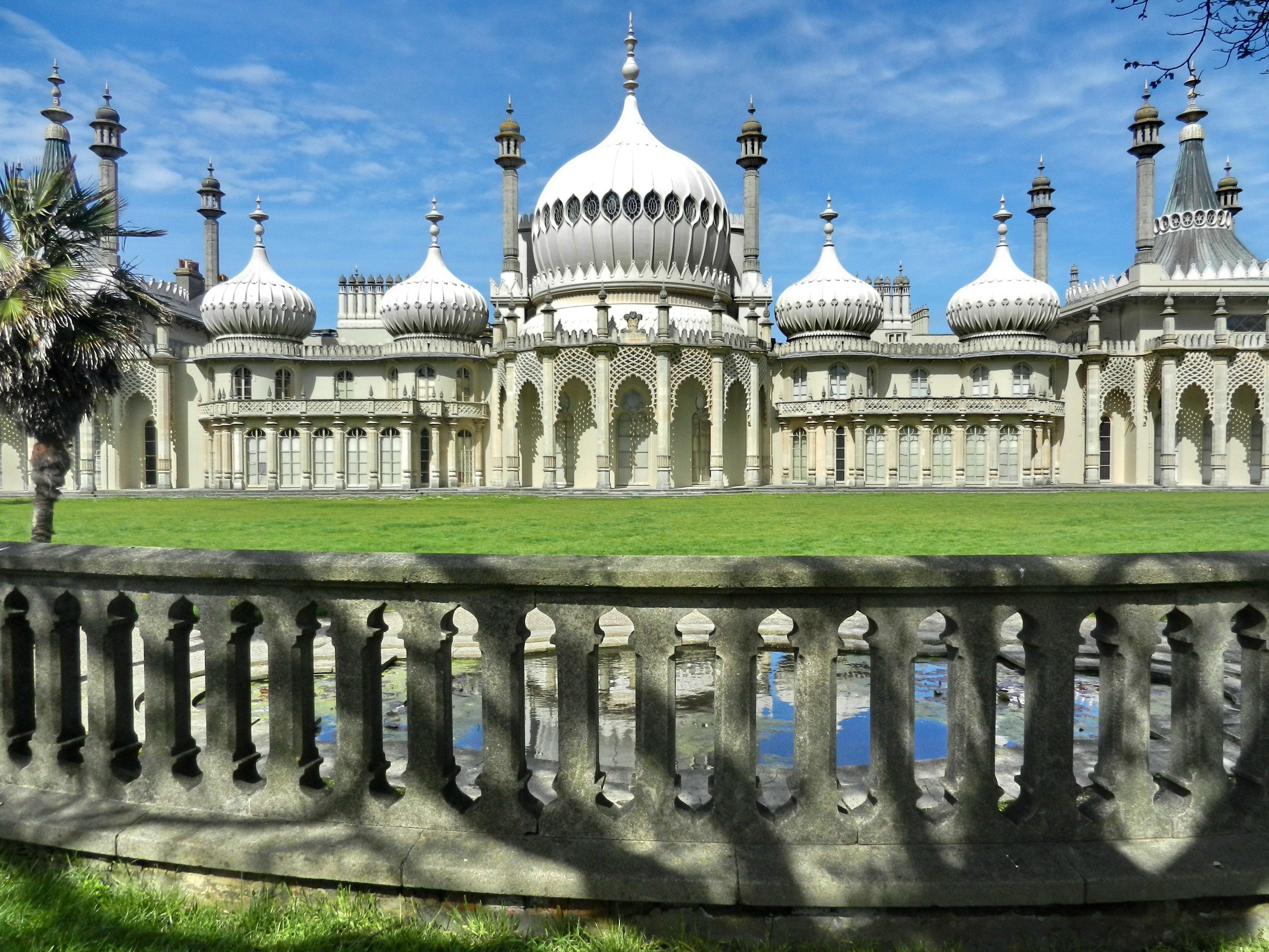 Brighton